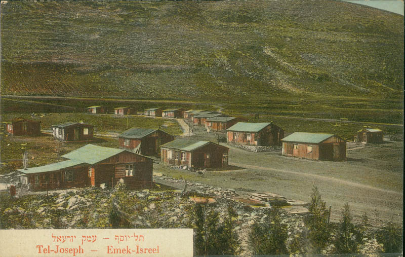 Description: Tel-Joseph Creator: Moshe Ordmann Date: early 20th century Medium: photographic postcard, colored Persistent URL: Repository: Yeshiva University Museum Accession number: 1995.038 Rights Information: No known copyright restrictions; may be subject to third party rights. For more copyright information, click here. See more information about this image and others at CJH Museum Collections.